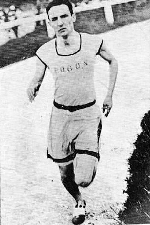 Zdzisław Latawiec, polish middle distance runner, three-time polish champion (1920)